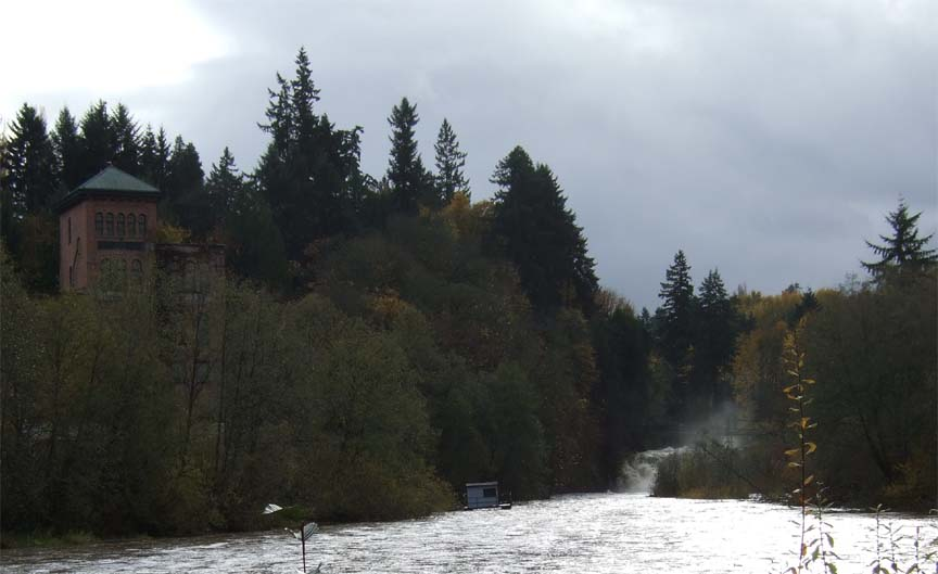 Lower Tumwater Falls dumps its contents into Capitol Lake next to the old Olympia Brewery.